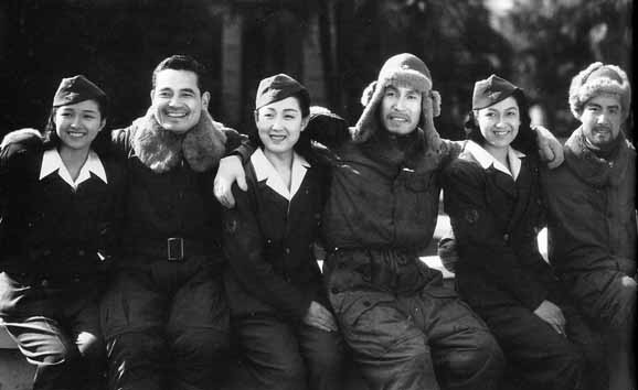 Hideko Takamine、Susumu Fujita,Hisako Yamane,Shin Saburi,Setsuko Hara and Akitake Kono in 1945 Japanese movie kita no 3nin(Northern 3 Women ).